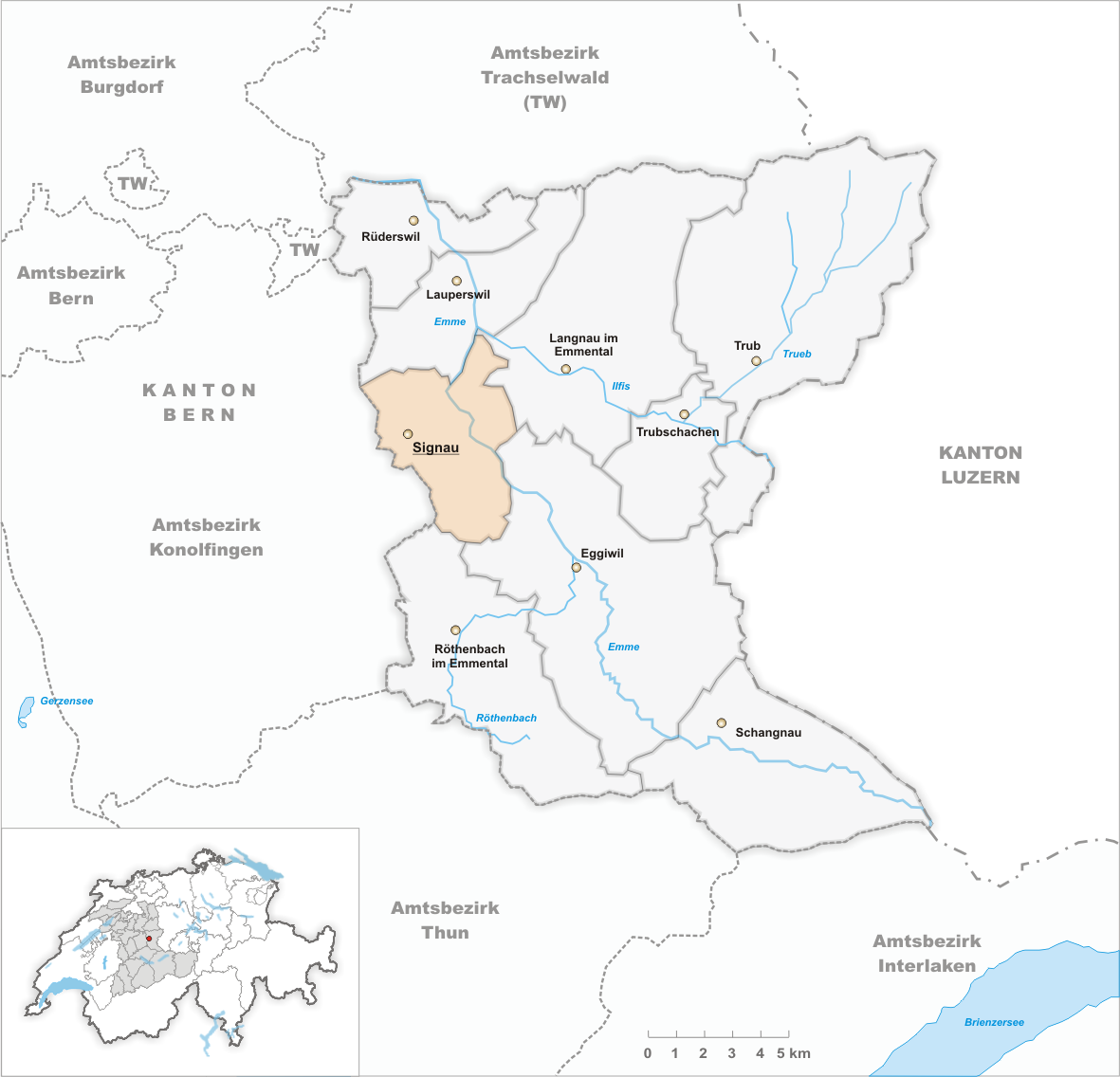 Municipality Signau